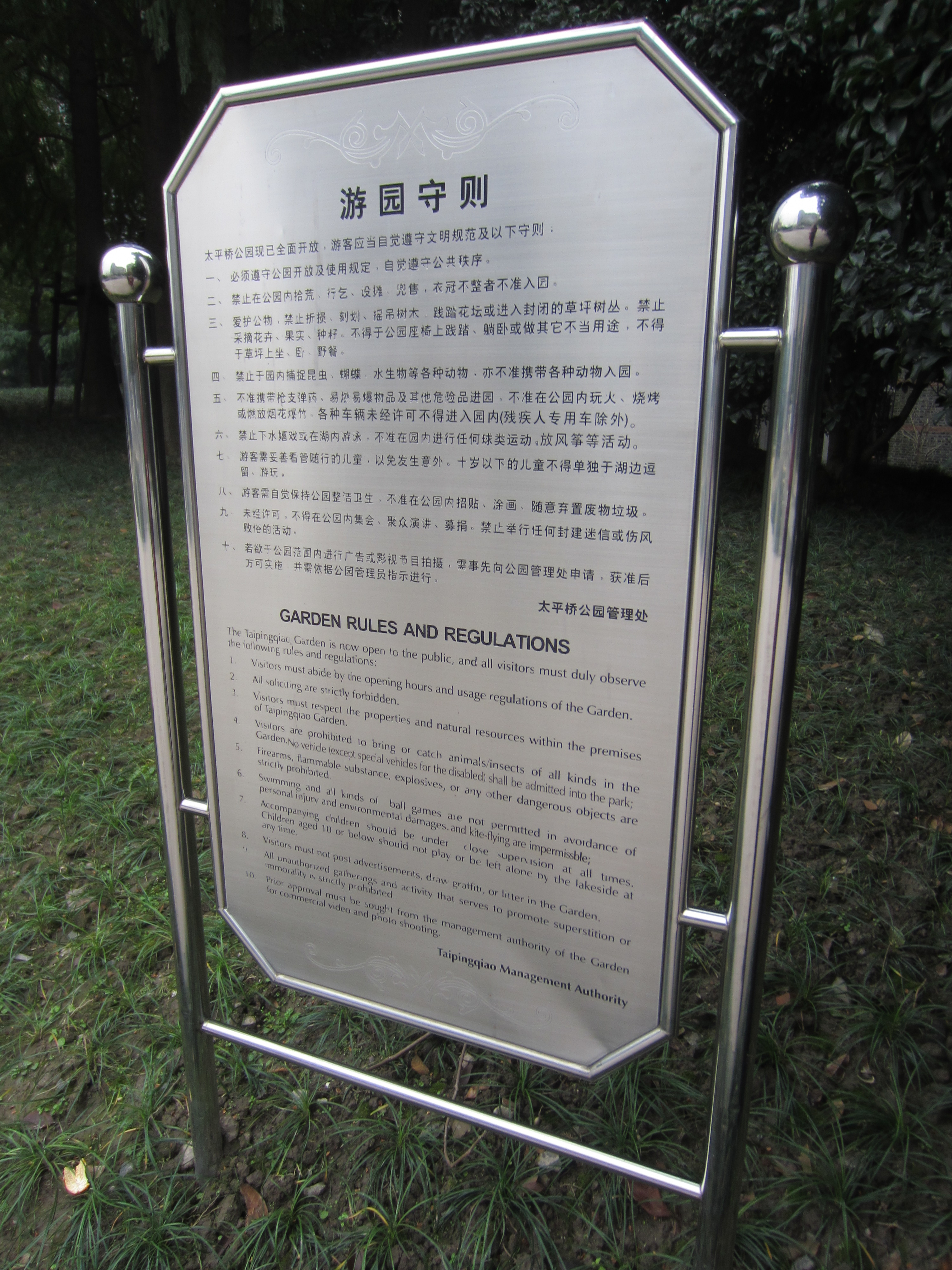 Shanghai, China, December 2015